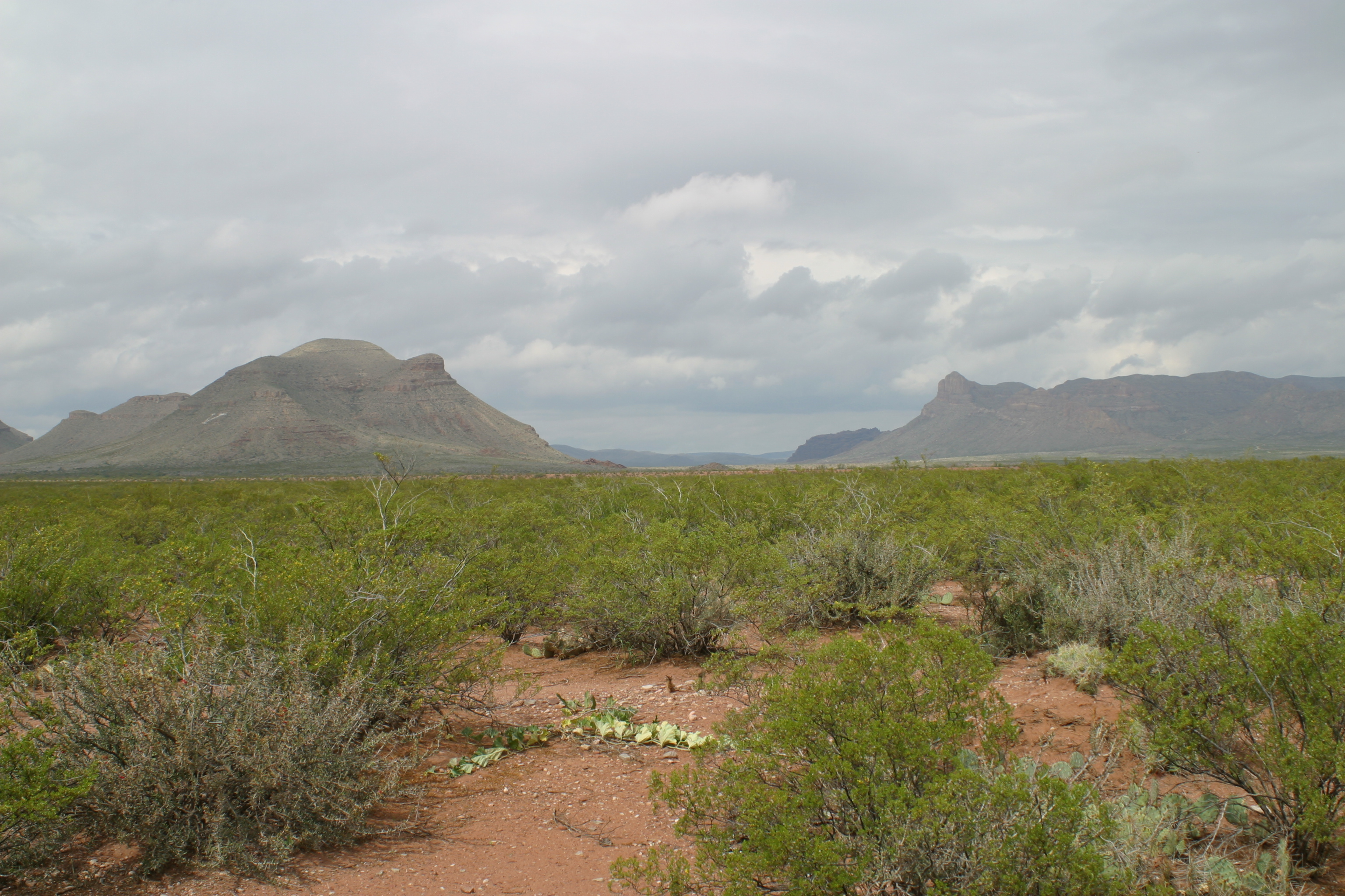 View of Threemile and Fivemile Mountains near Van Horn, Texas.Plants: The major, governing plant is the creosote (a forest), Larrea tridentata, (gobierno, as one of many common names in Spanish); in foreground left, is a Deep Red flowered, (typical "Desert Globemallow", (deep Red to lighter Orange)), Globemallow-(multi-stemmed), Spaeralcea ambigua spp-(?); foreground, right is a common Prickly pear, the Opuntia. (Mesquite trees may be in the washes, etc.)